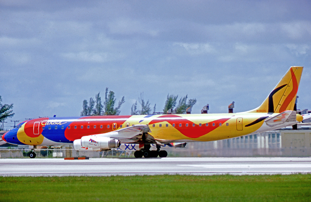 Douglas DC-8-62 of Braniff International painted in Alexander's design at Miami Airport in August 1975